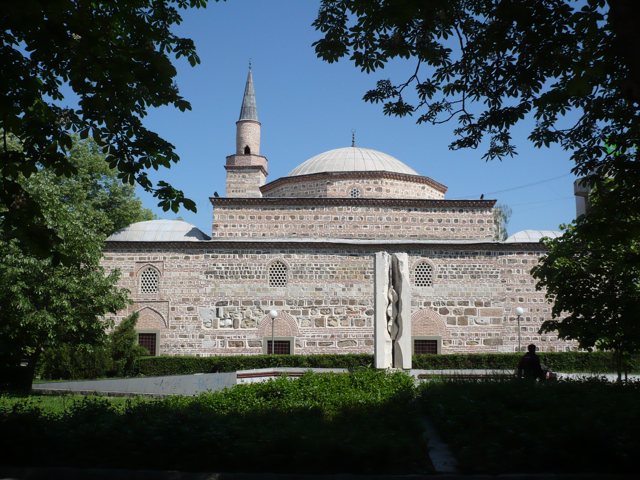 Eski Cami "Ebu Bekir"